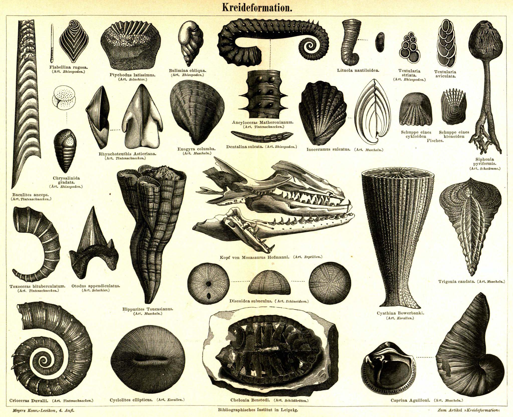 Cretaceous fossils